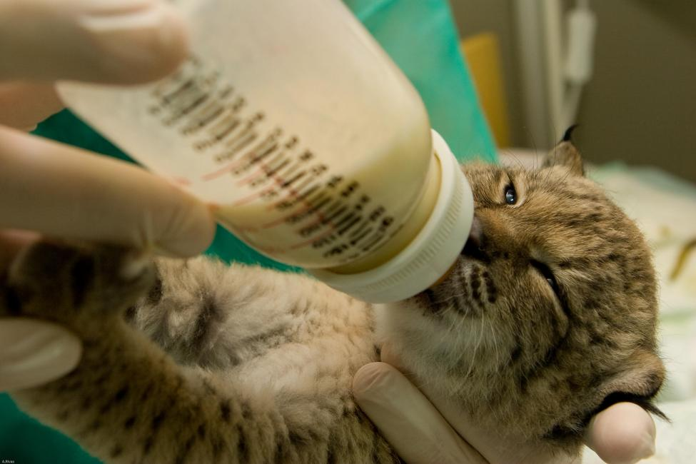 Iberian Lynx cub who born in the Program Ex-situ Conservation in 2008